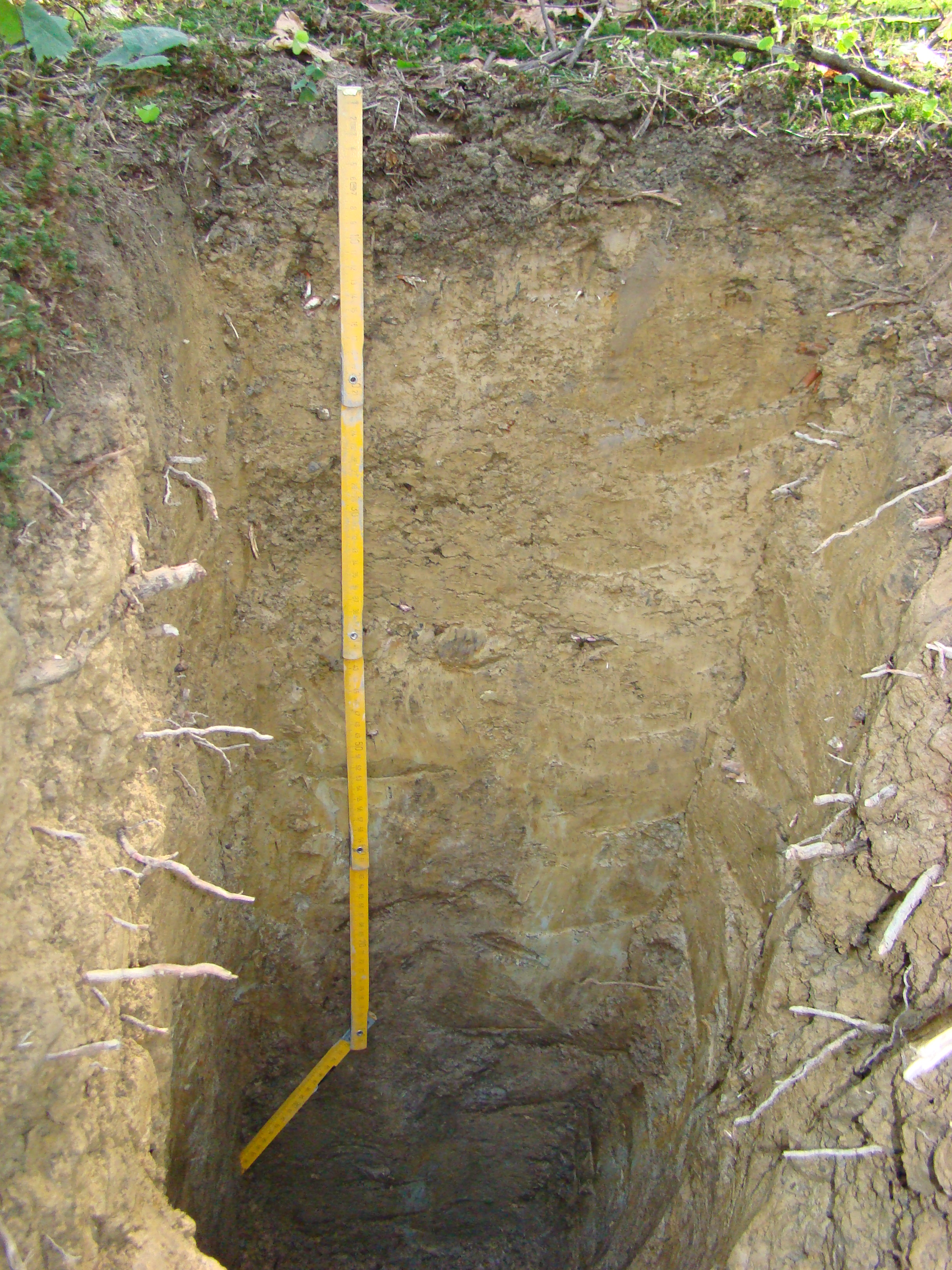 Eutric Cambisol (Inceptisol) with some geyic properties. Beskid Niski Mts, S Poland